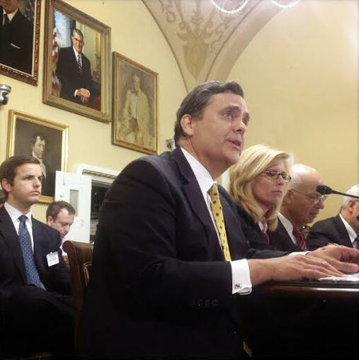 Jonathan Turley testifies to Congress; photo by Claire Duggan